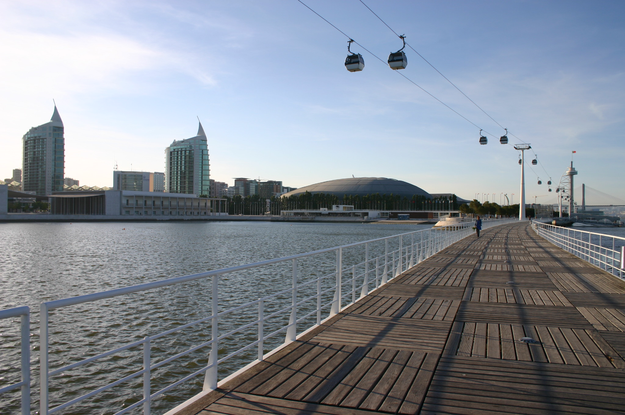 Image of the modern Lisbon.